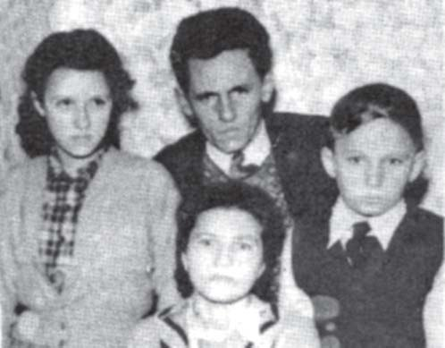 Konstantyn Himmelreich with wife Walentyna, daughter Olesia and son Yurko, Australia 1951